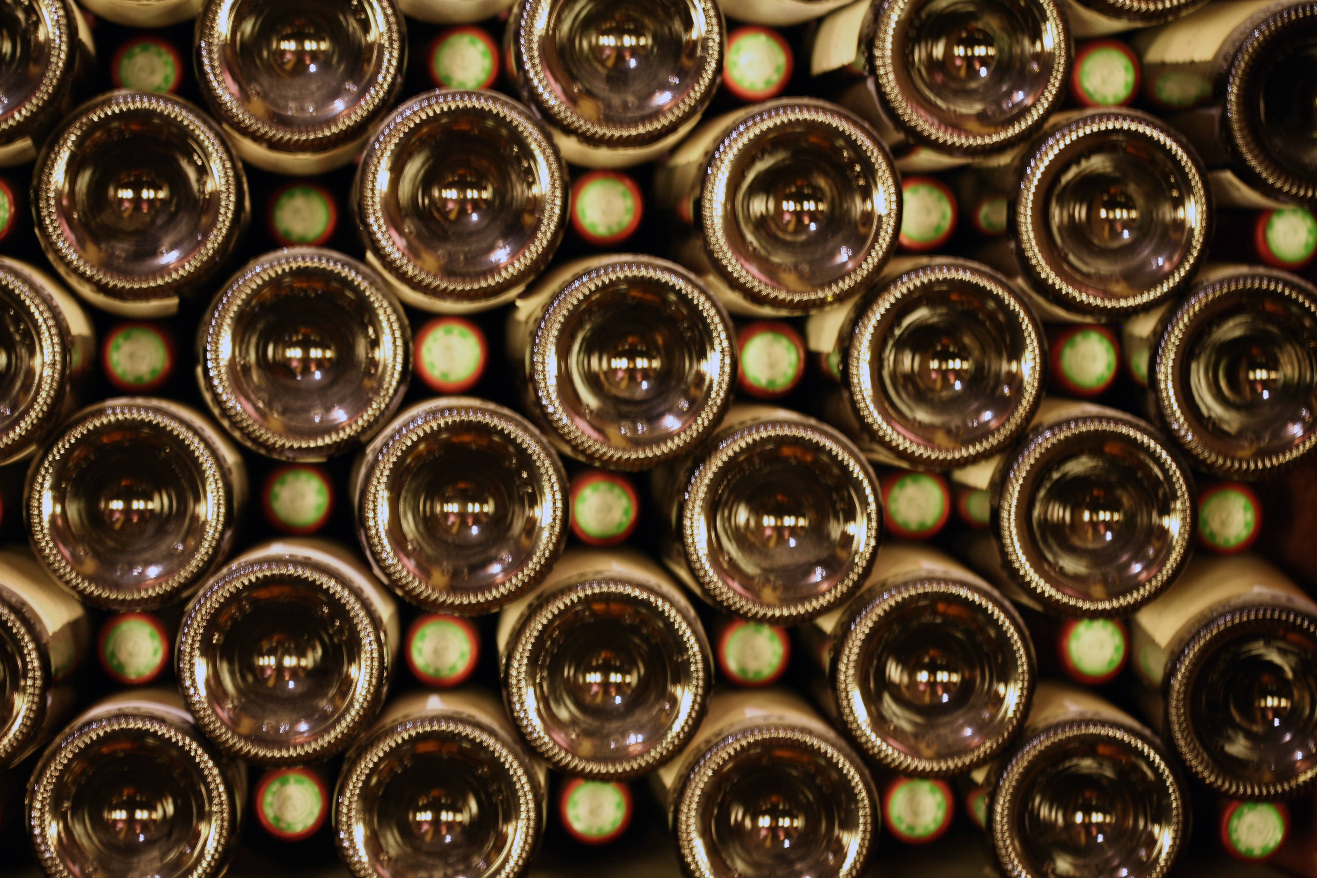 Rows of bottles of Beaumes-de-Venise AOC, Vaucluse, France